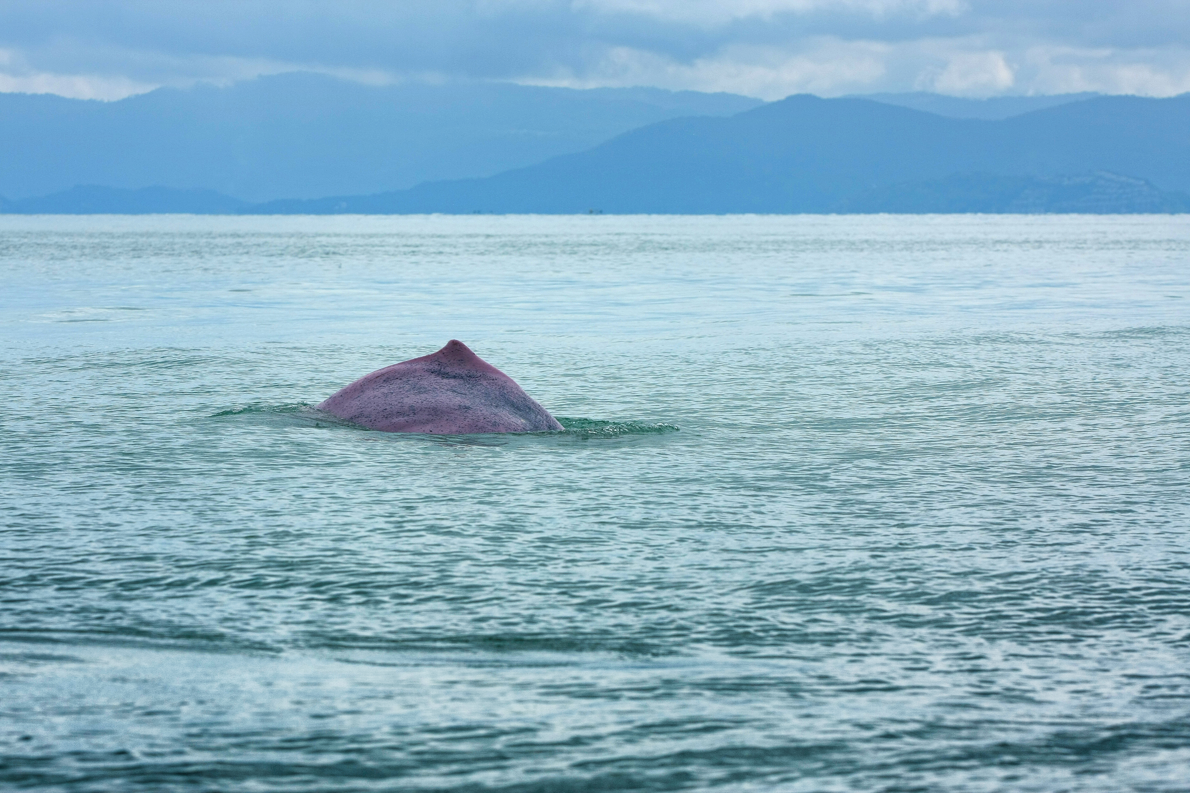 อุทยานแห่งชาติหาดขนอม-หมู่เกาะทะเลใต้